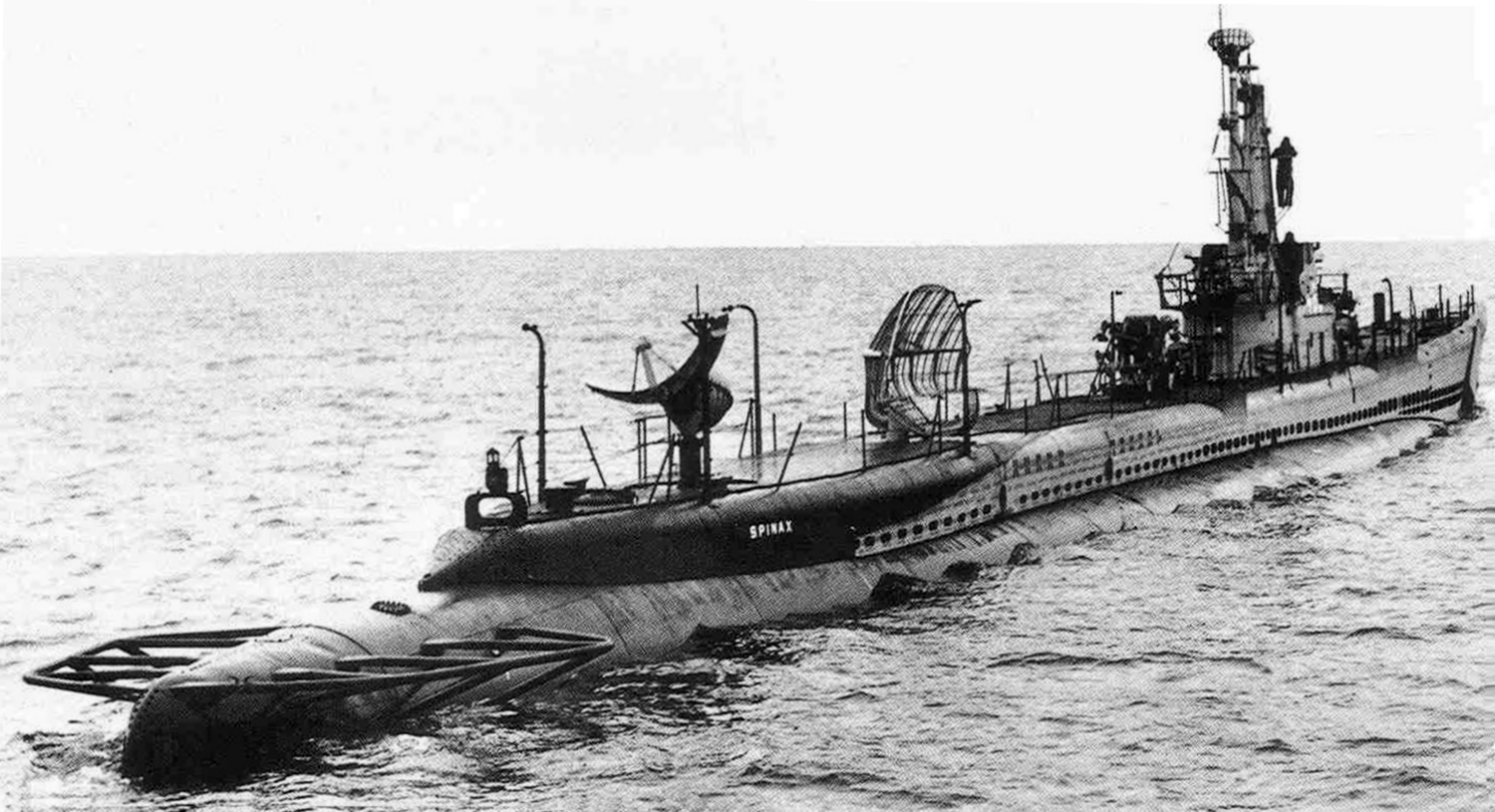 The U.S. Navy radar picket submarine USS Spinax (SS-489), in 1947. USS Requin (SS-481) and USS Spinax (SS-489) were completed as radar picket submarines in the fall of 1946. Although not yet classified as radar pickets ("SSRs"), both submarines mounted high-powered SR-2 search radars and SV-2 height finders directly on their afterdecks, with the radar electronics and CIC just below in the after torpedo rooms. Although a stern launching capability was still retained, the tubes had to be loaded externally. To accommodate the additional electronics, each boat received an extra motor-generator and more air-conditioning, and to provide a reference point for the combat air patrol (CAP) they controlled, homing beacons were deck-mounted on both. Despite having to discontinue radar operations whenever they submerged, Requin and Spinax were basically successful in their new roles, and they were certainly more survivable than a corresponding destroyer. However, the low deck-mounting of their antennas severely limited radar performance and attracted reliability problems from both breaking seas and salt-water intrusion into the waveguides. (USN)